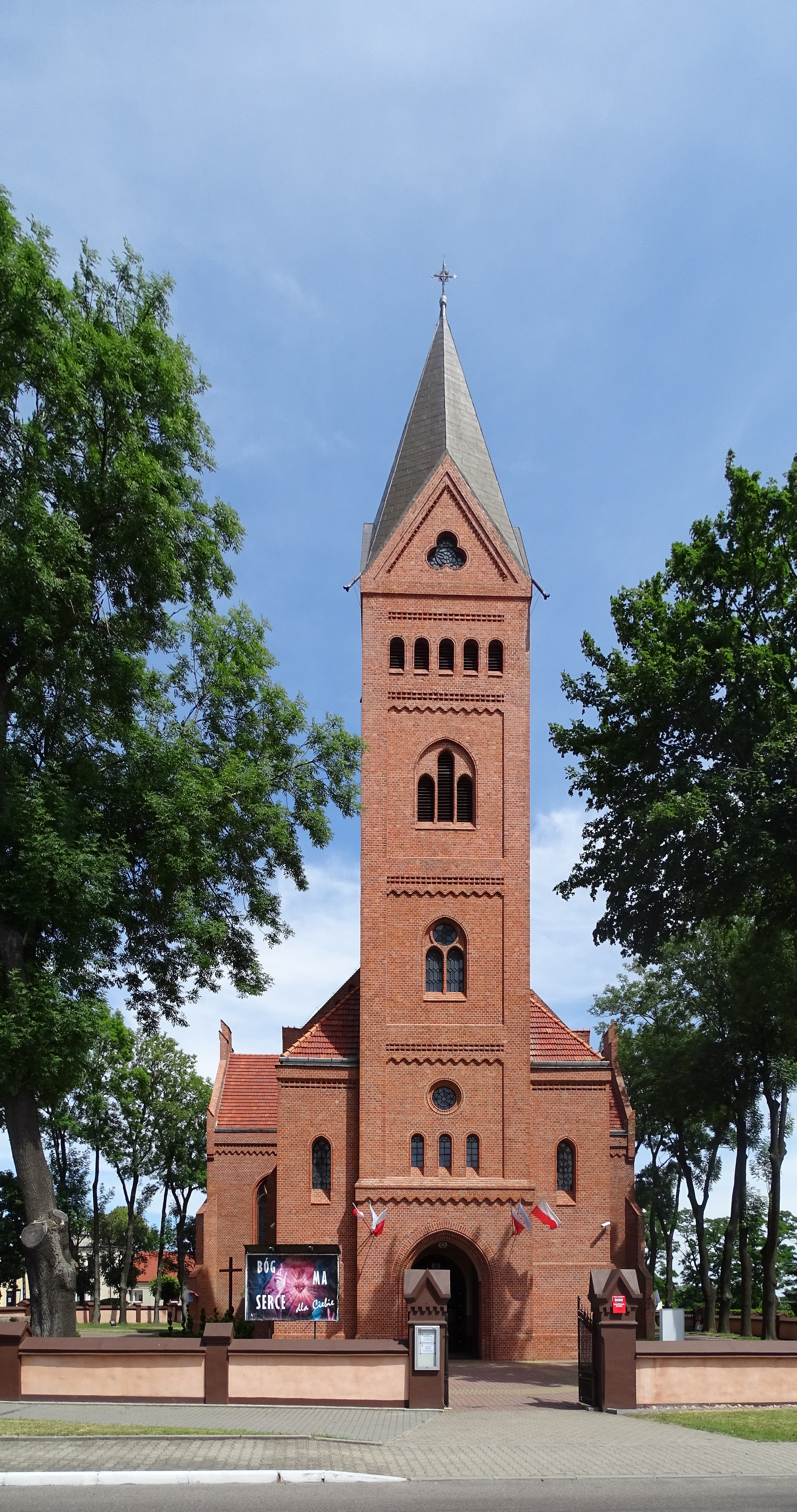 The parish church was built in 1906.